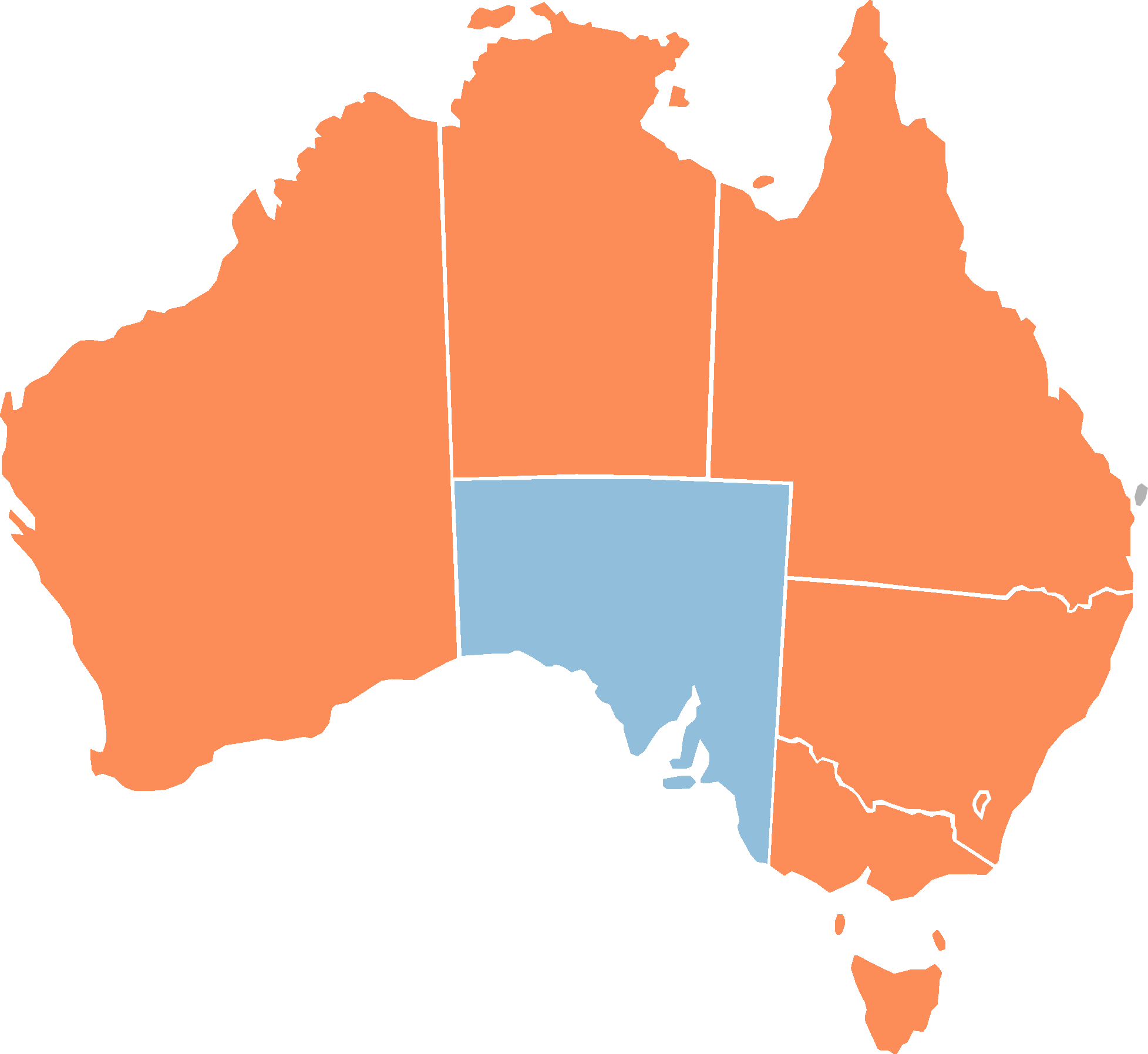 Australian state laws regarding killing cats or dogs for consumption Killing cats or dogs is legal Killing cats or dogs is illegal